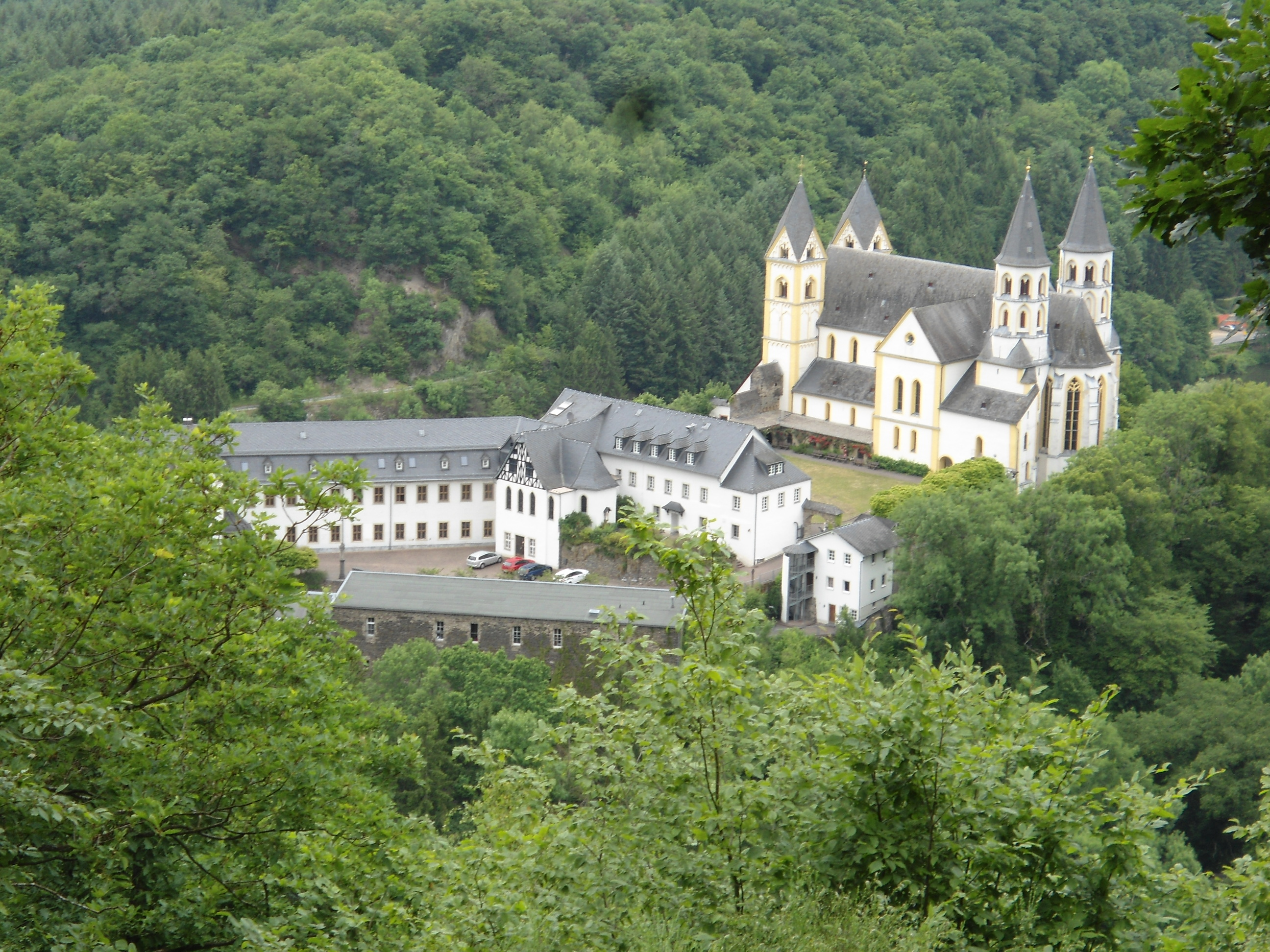 Kloster Arnstein, photographed from the opposite bank of the river Lahn